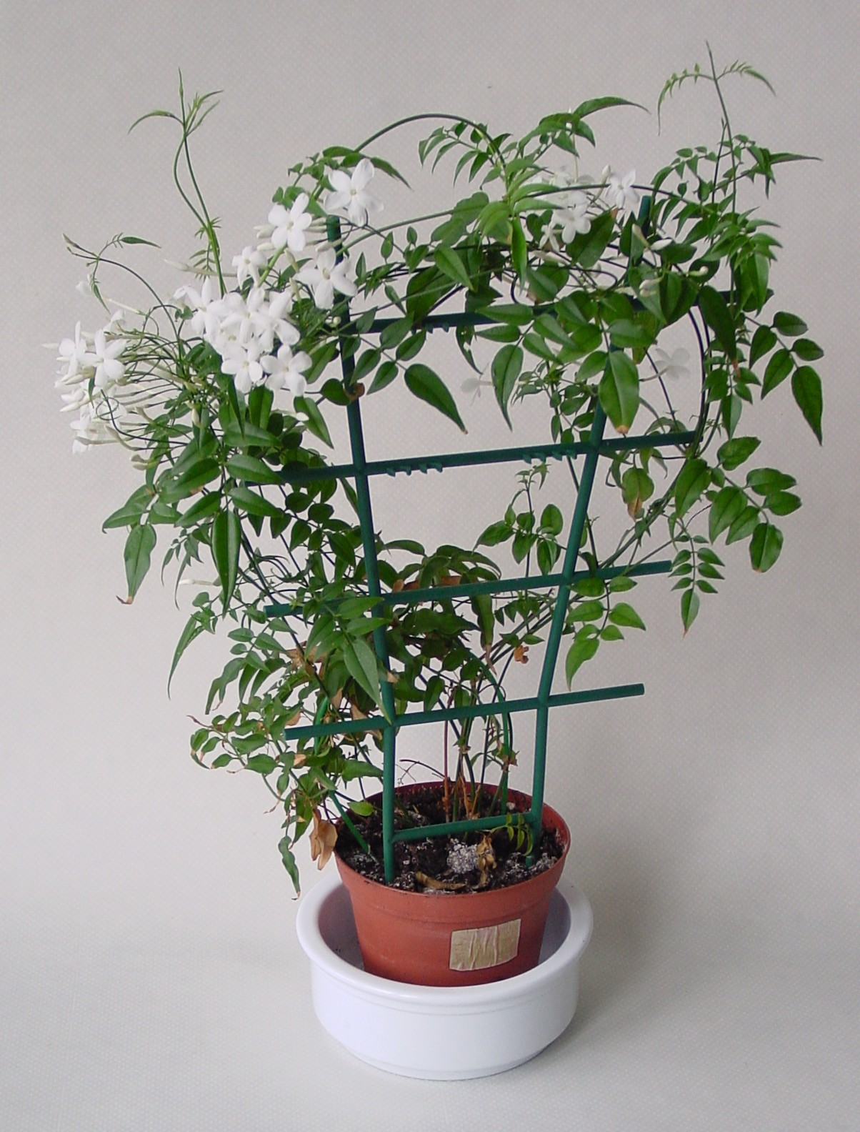 many-flowered jasmine